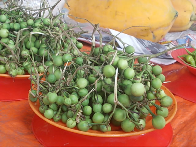 Solanum tarvum / terung pipit of malaysia